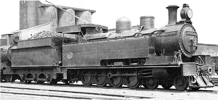 SAR Class 17 (4-8-0TT) at North End loco depot, Port Elizabeth in the late 1930s.